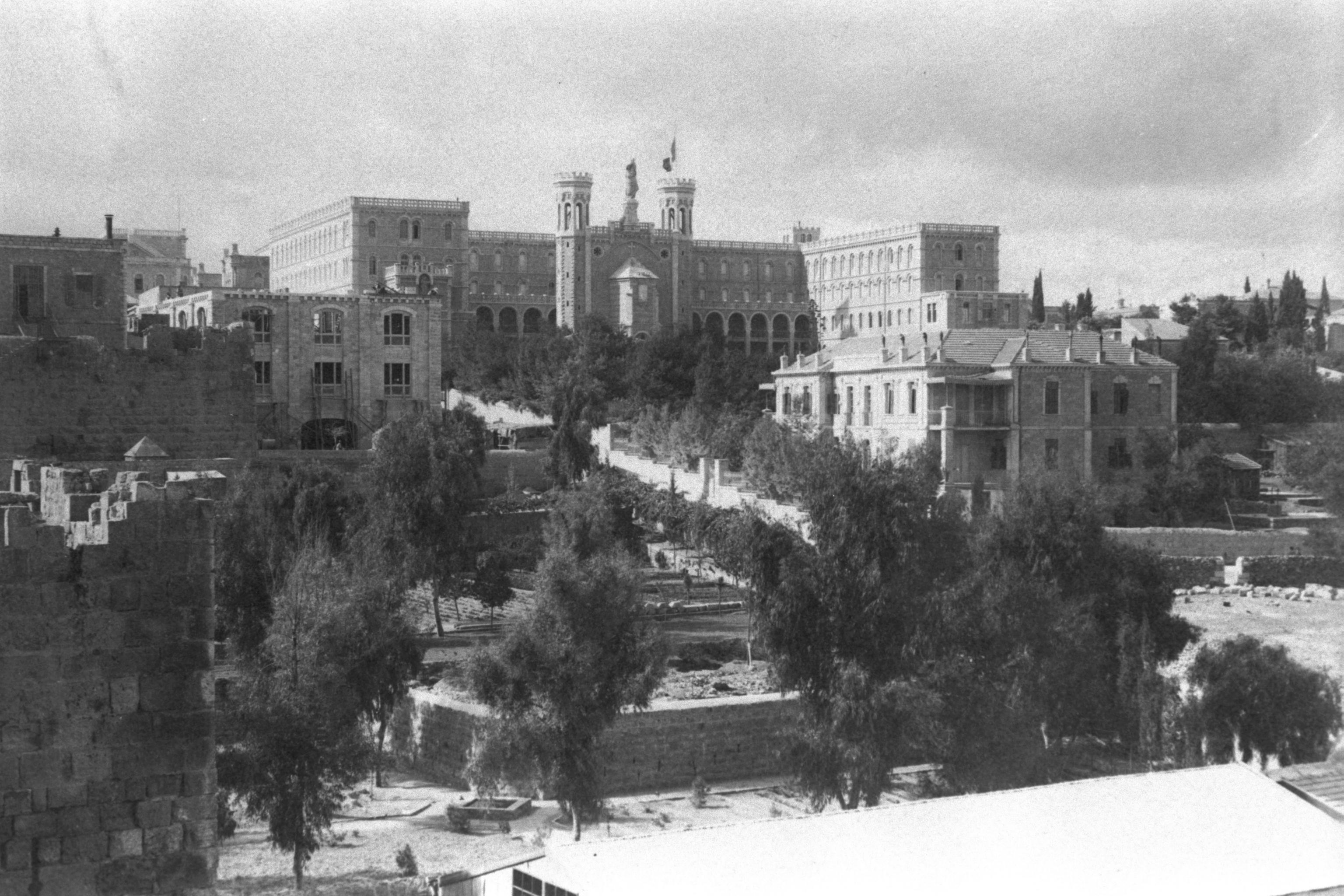 THE NOTRE DAME HOSTEL IN JERUSALEM, DURING THE OTTOMAN ERA. צילום אכסניית " נוטר דאס " בירושלים, בתקופת העותומנים בארץ ישראל.